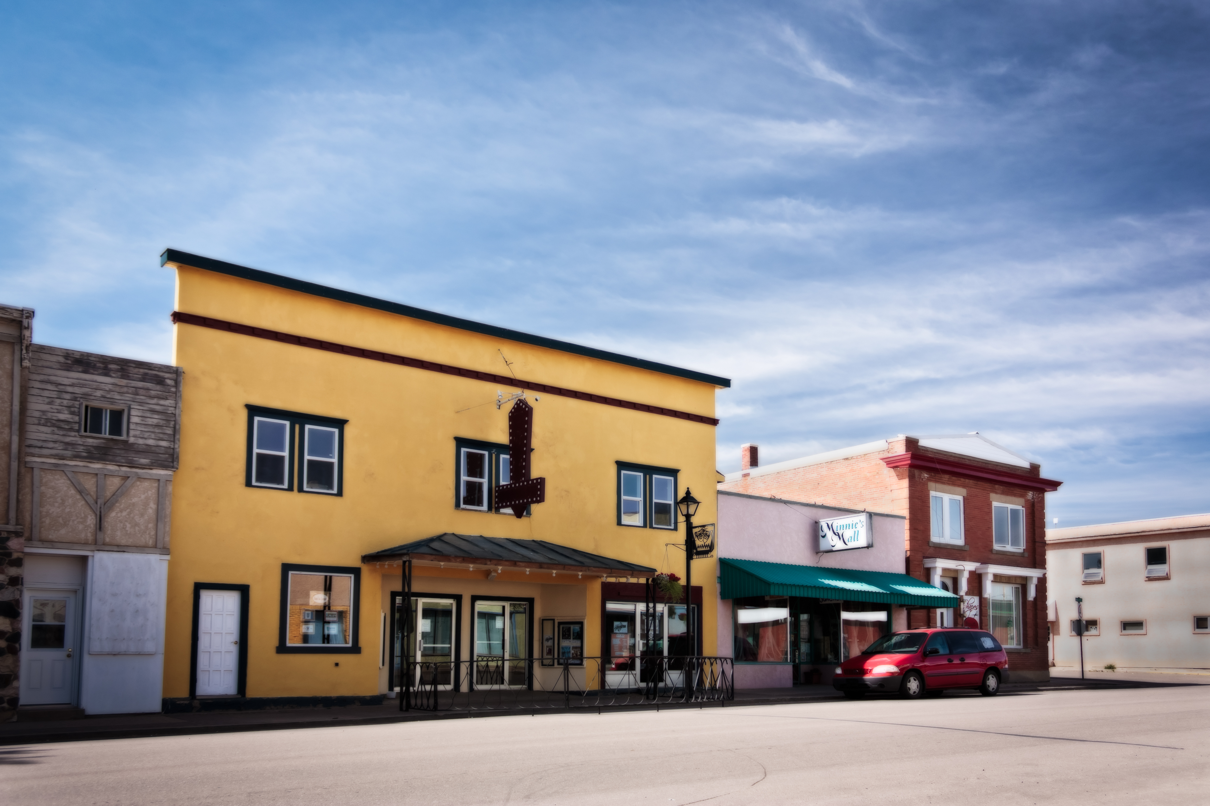 The Gaiety Theatre is a Municipal Heritage Property built in AD 1926 in the Saskatchewan town of Gravelbourg. It features a one-storey cinema house. It is one of the oldest buildings in the town.